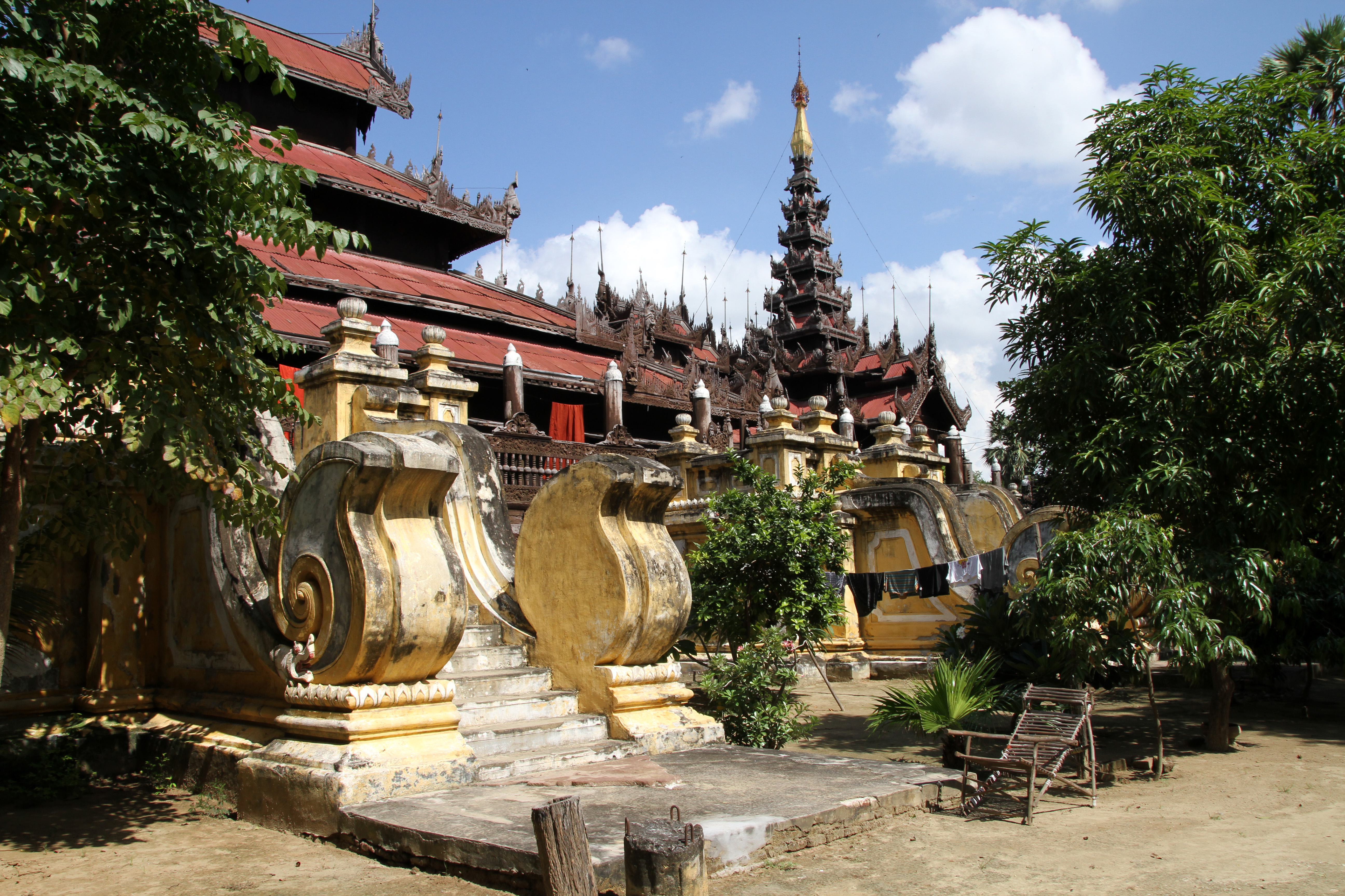 Shwe Inn Bin monastery in Mandalay in Myanmar.